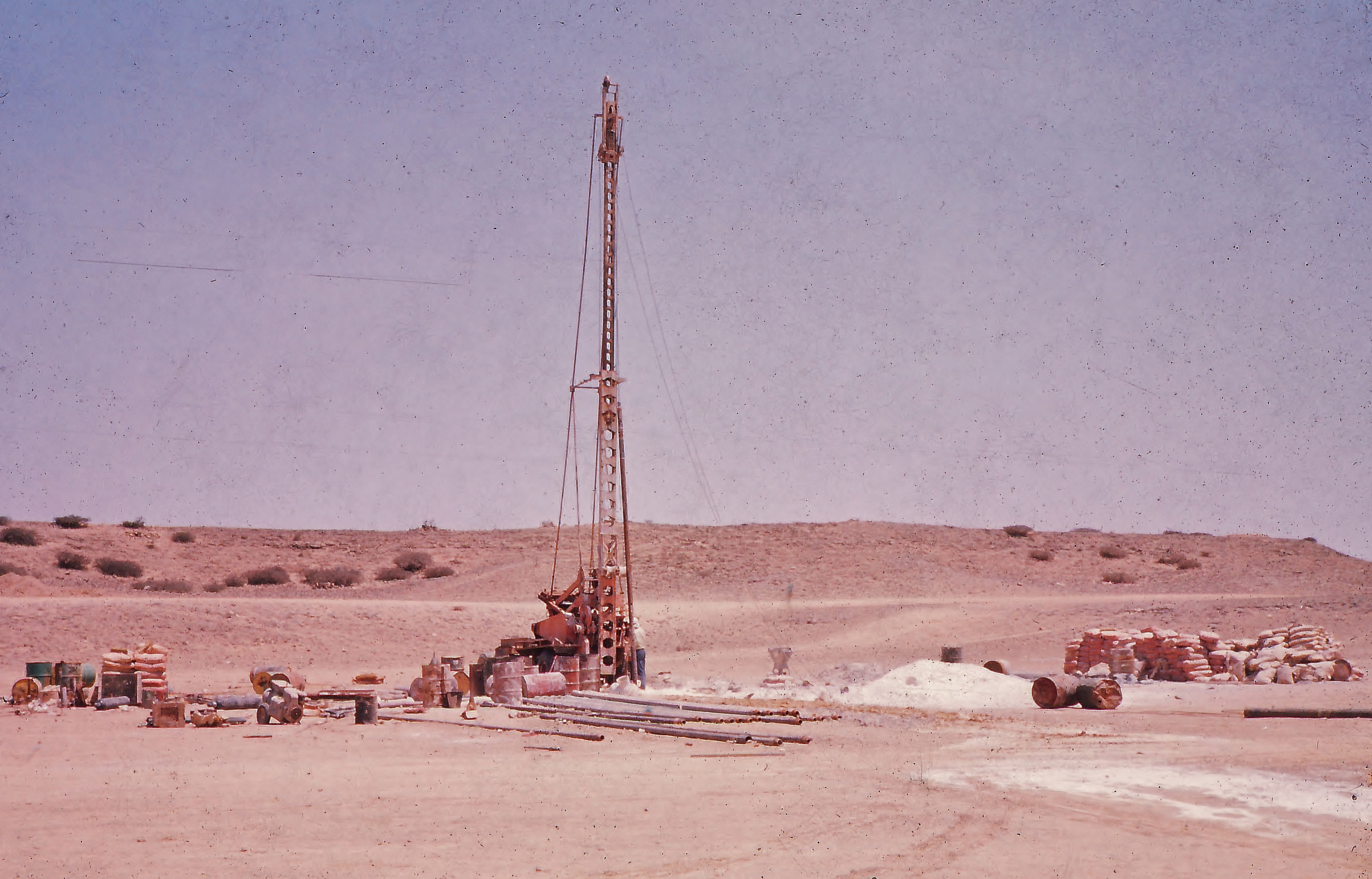 The Dhofar War - A drilling rig on the jebel. The Sultan's Civil Aid Development programme included providing water for the nomadic jebalis and Mahra tribes and their goats, cattle, and camels.